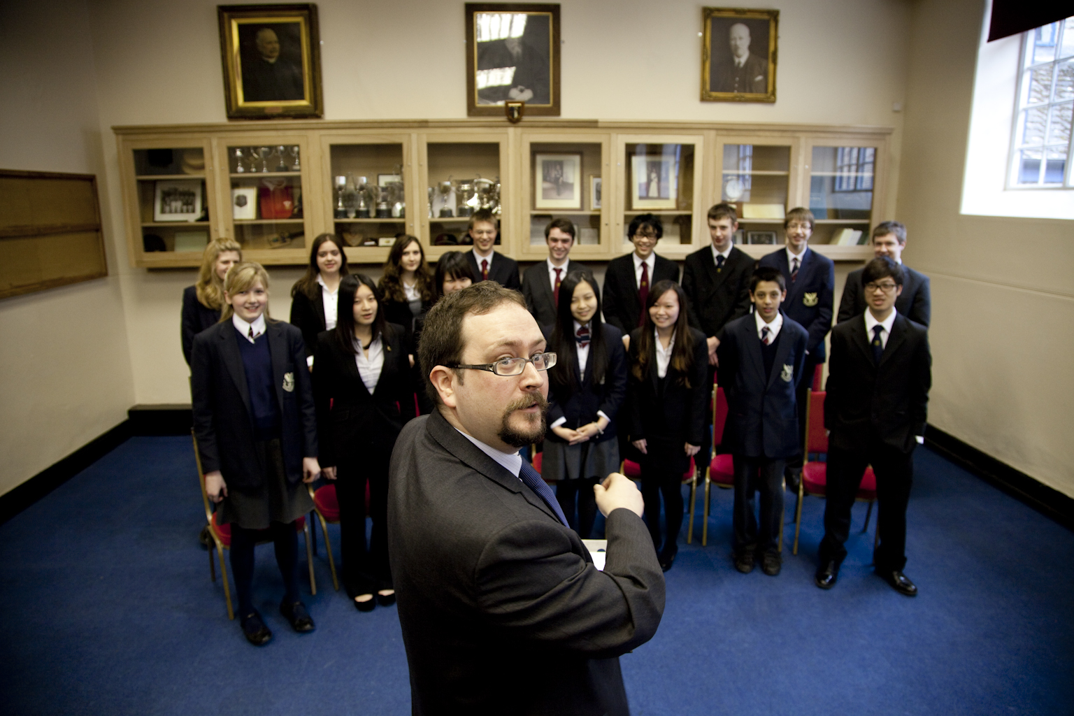 Choir Practice Ruthin School, Mold Road, Ruthin, Denbighshire, Wales UK +441824 702543